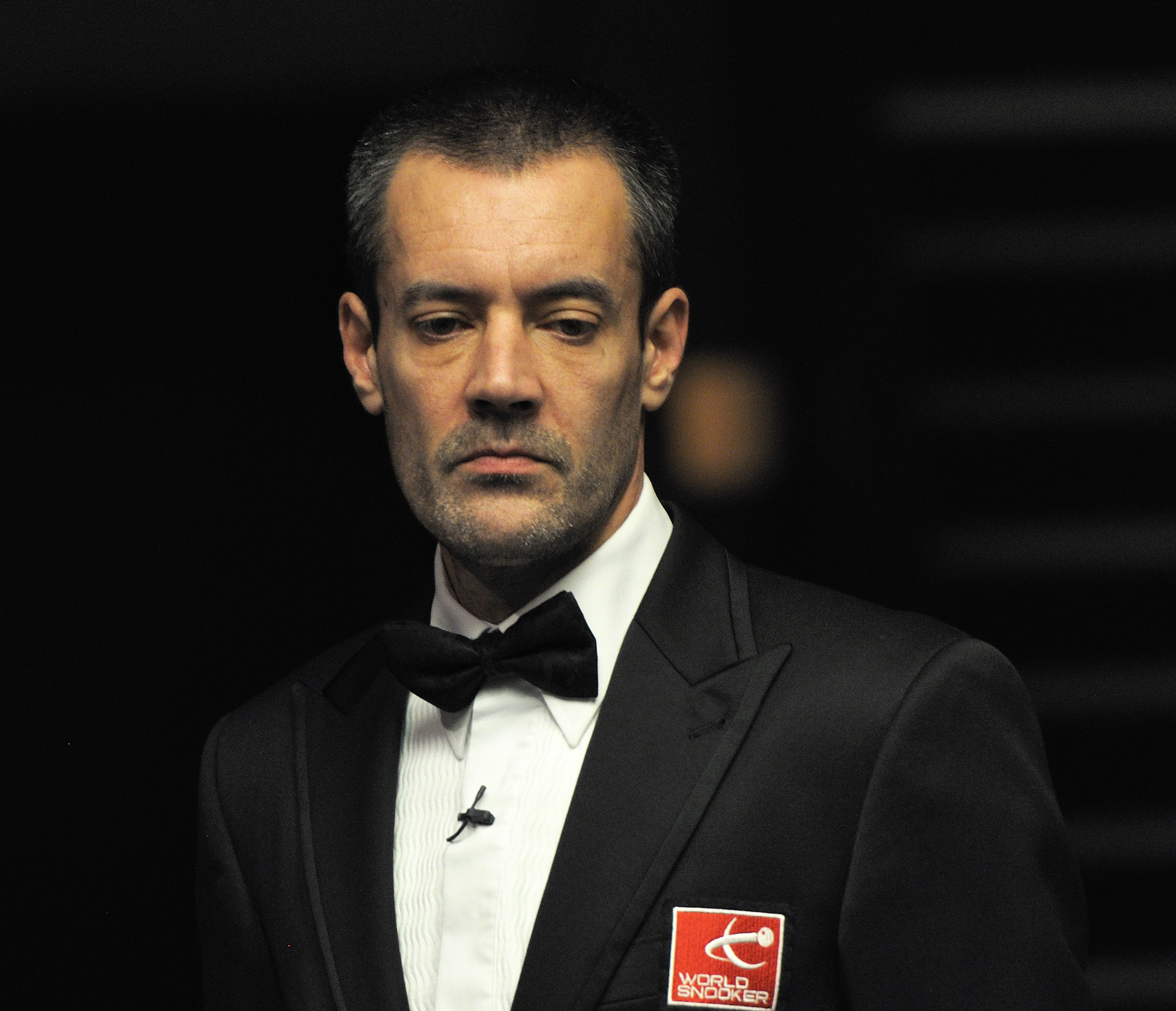 Picture taken in Berlin during the Snooker German Masters in 2013. Olivier Marteel.